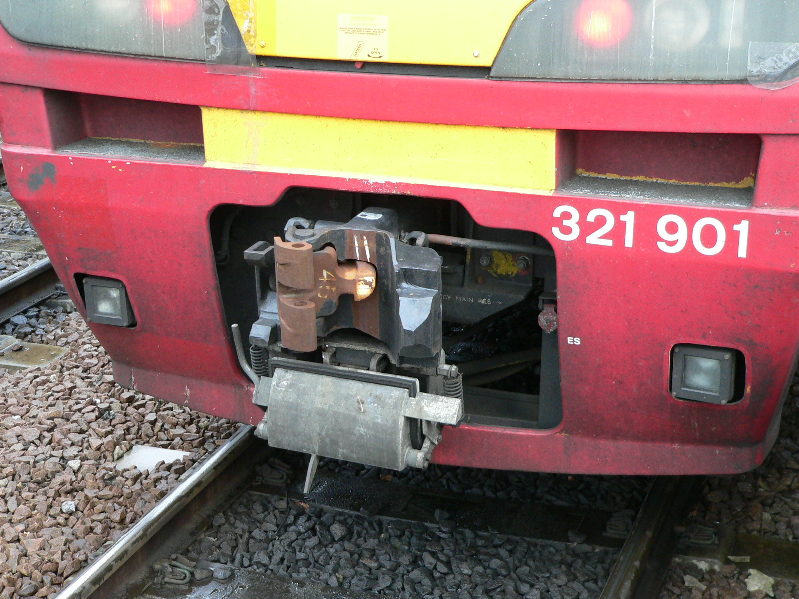 A closeup of the coupling on Northern Rail Class 321 EMU 321901, photographed between services at Leeds City railway station.